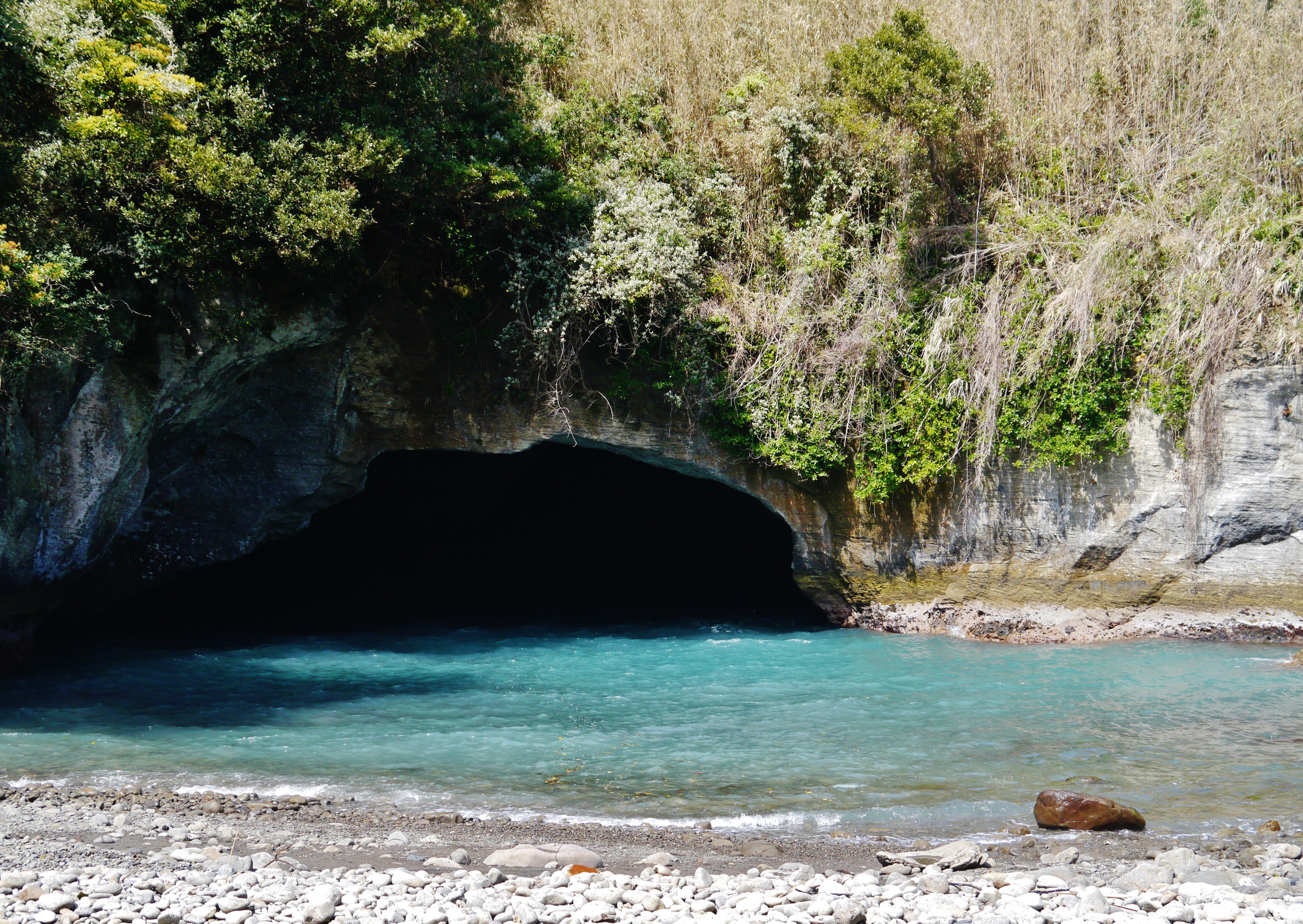 Dogashima Sea Cave, Nishi Izu, Prefecture of Shizuoka, Region of Chubu, Japan